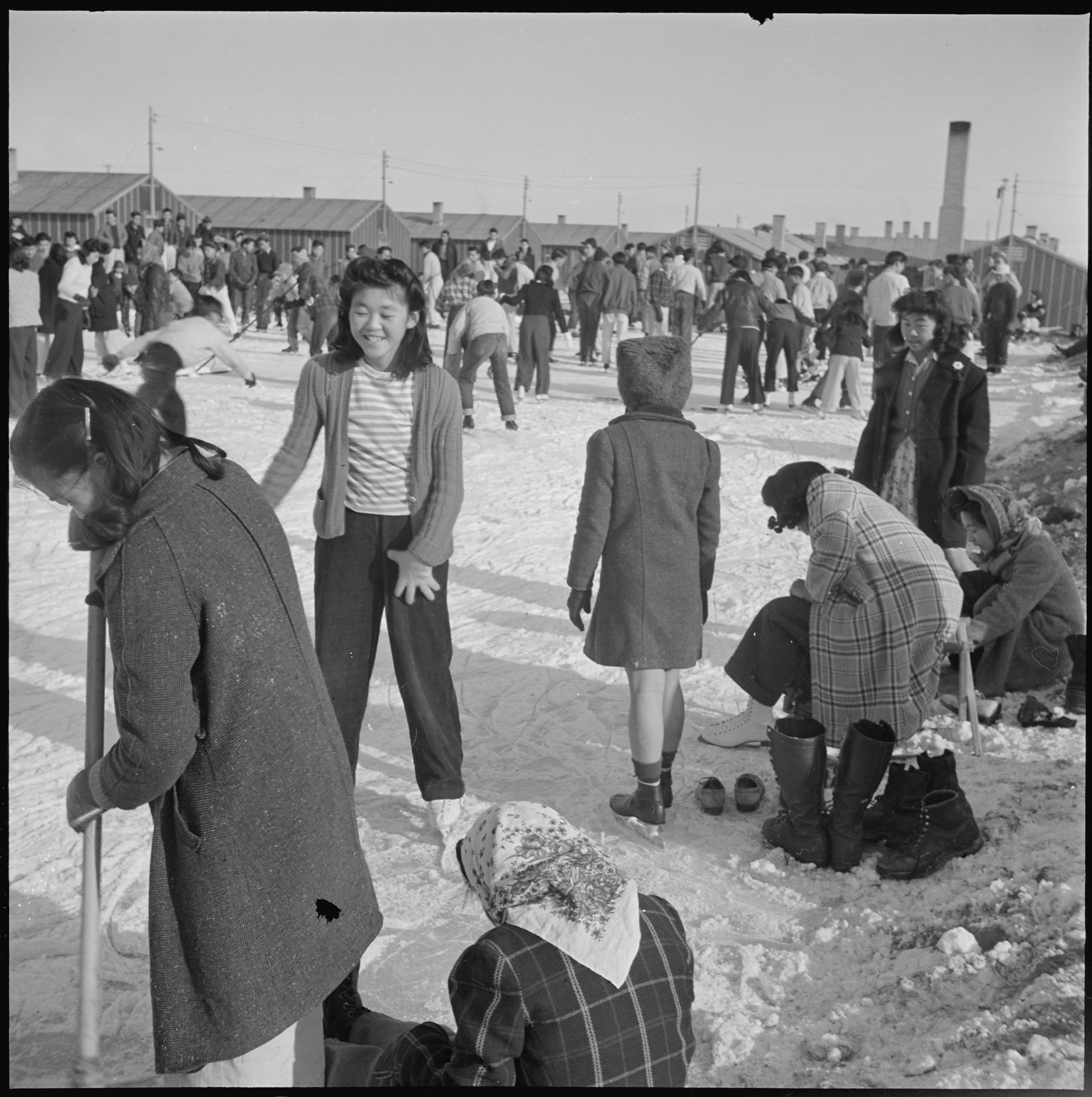 Scope and content: The full caption for this photograph reads: Heart Mountain Relocation Center, Heart Mountain, Wyoming. Residents of Japanese ancestry, at the Heart Mountain Relocation Center, were quick to grasp the recreational advantages of Wyoming's cold weather. Ponds were constructed and flooded, and former Californians, to whom ice skating was a new sport, were enthusiastically nursing bruises and enjoying the sport.